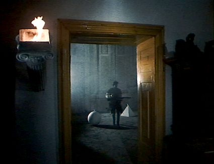 Gaston Haller in his house